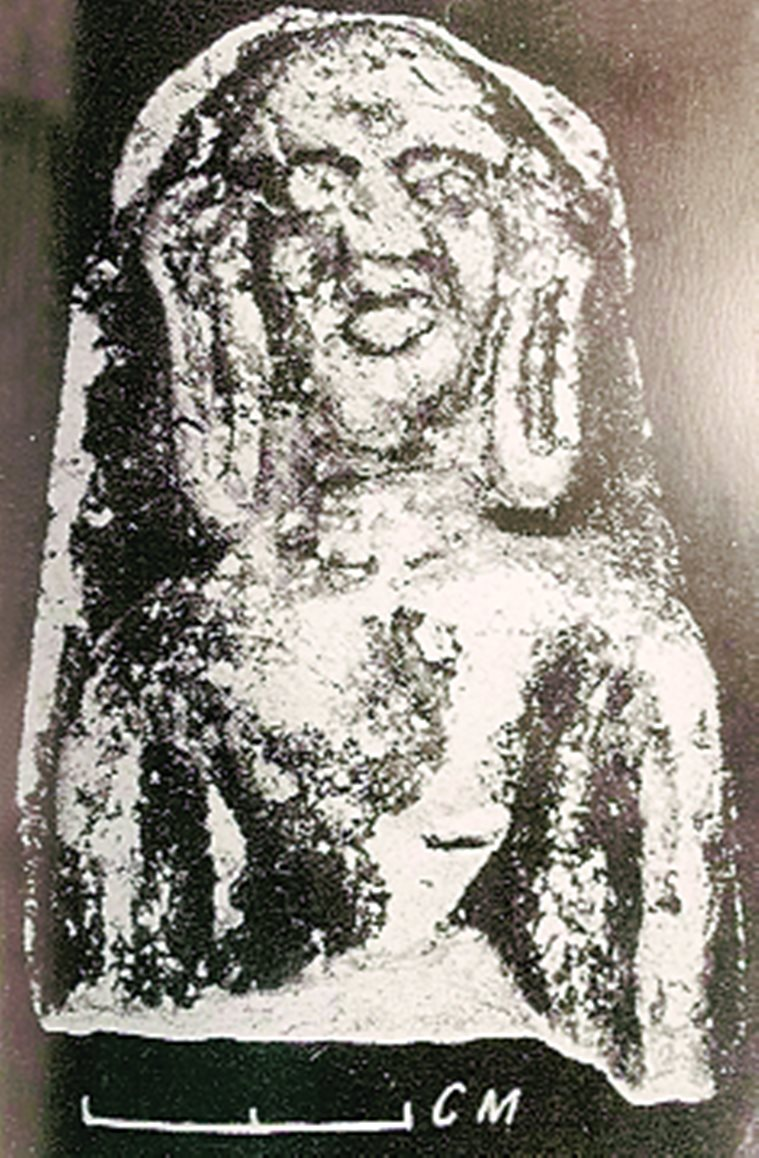 Prof BB Lal, former director-general of the Archaeological Survey of India, conducted excavations in Ayodhya between 1975-76 and found a terracotta image dating back to 4th century BCE showing a Jain ascetic.